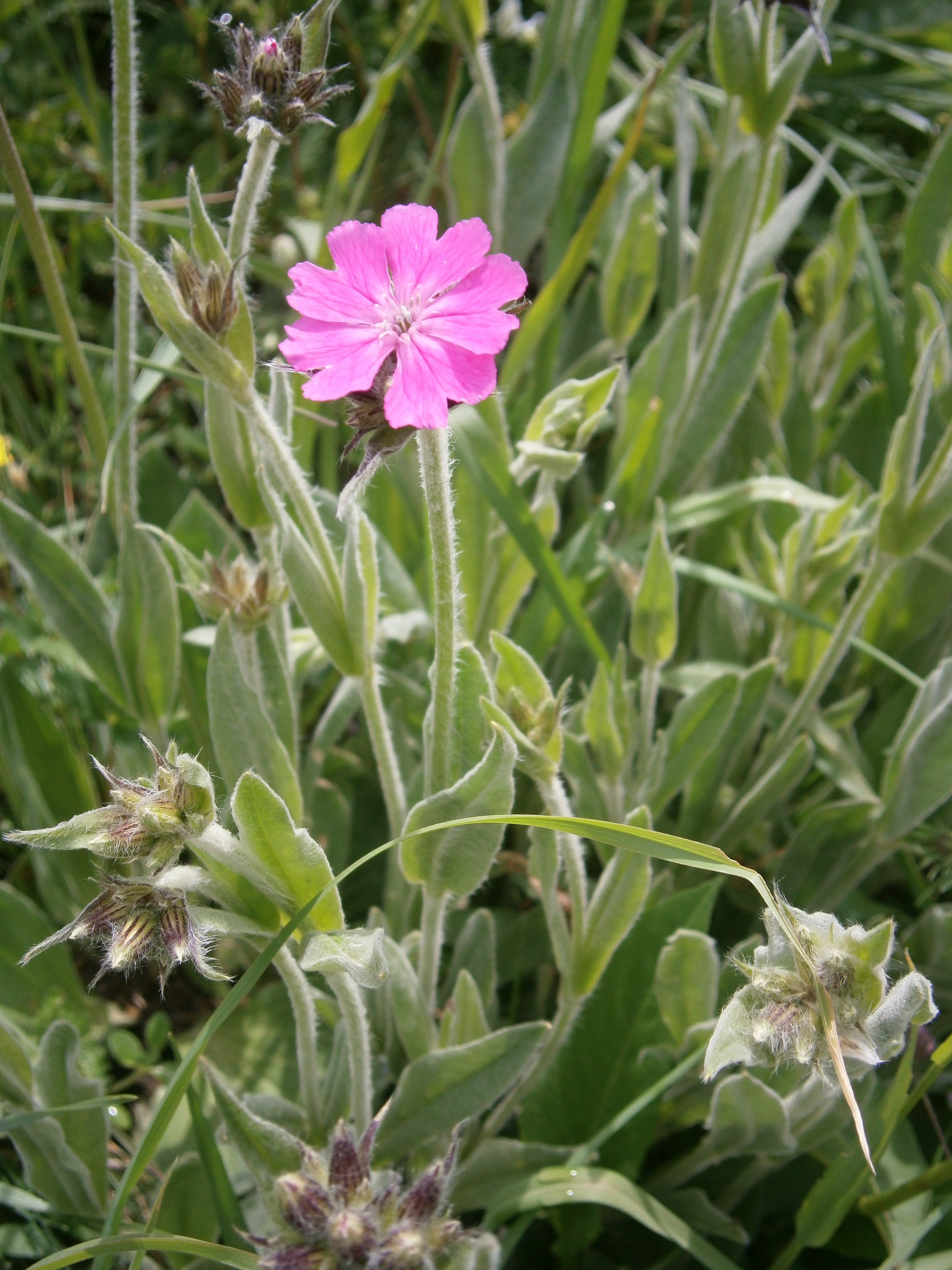 Lychnis flos-jovis